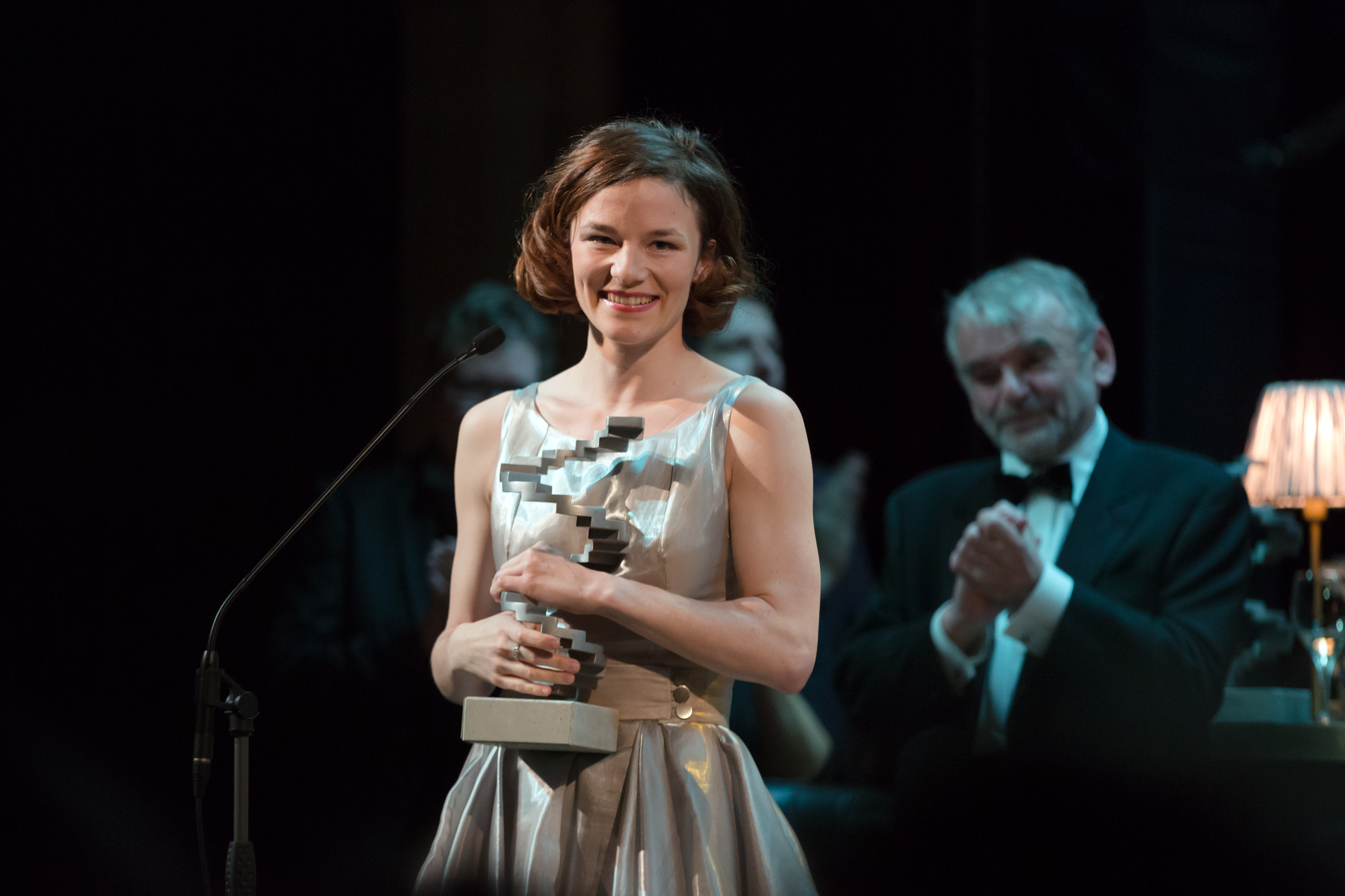 Austrian Film Awards 2017: Valerie Pachner, best actress in a leading role in Egon Schiele: Tod und Mädchen; Rathaus, Vienna, Austria.